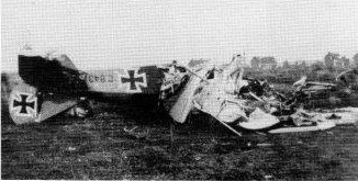 RAF ace James McCudden's 18th victory: a crashed German reconnaissance aircraft.